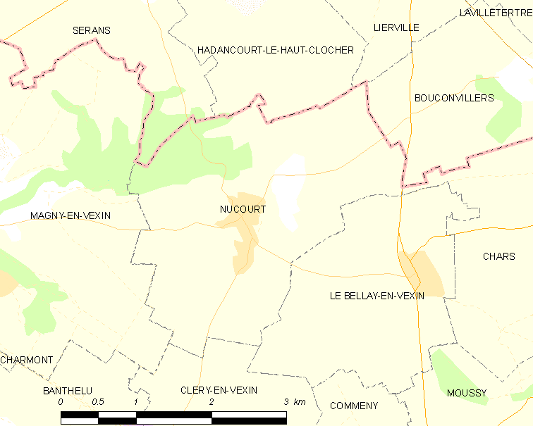 Map of French municipality Nucourt